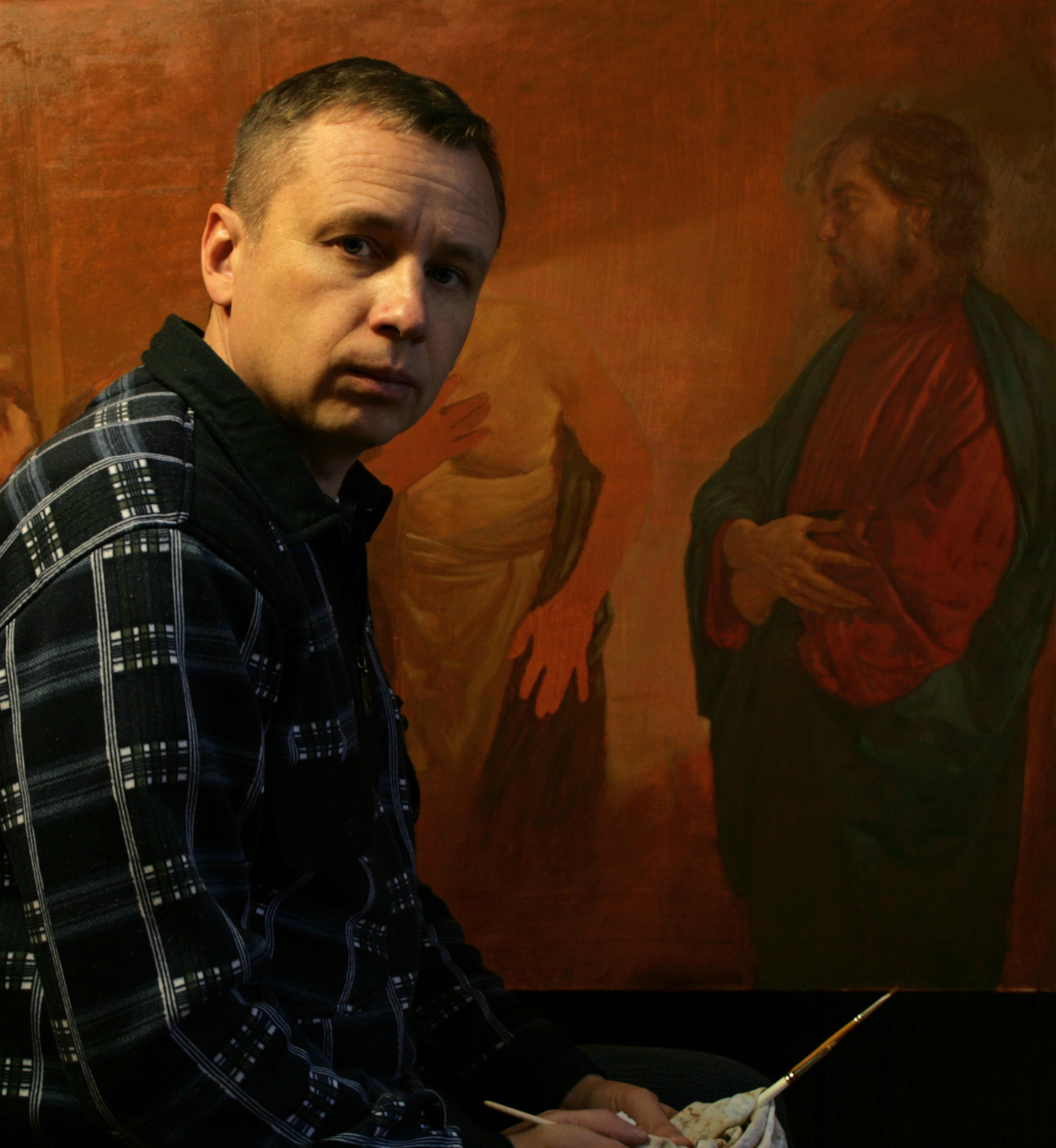 Artist Andrey Mironov. 2013 Photo – a-portrait